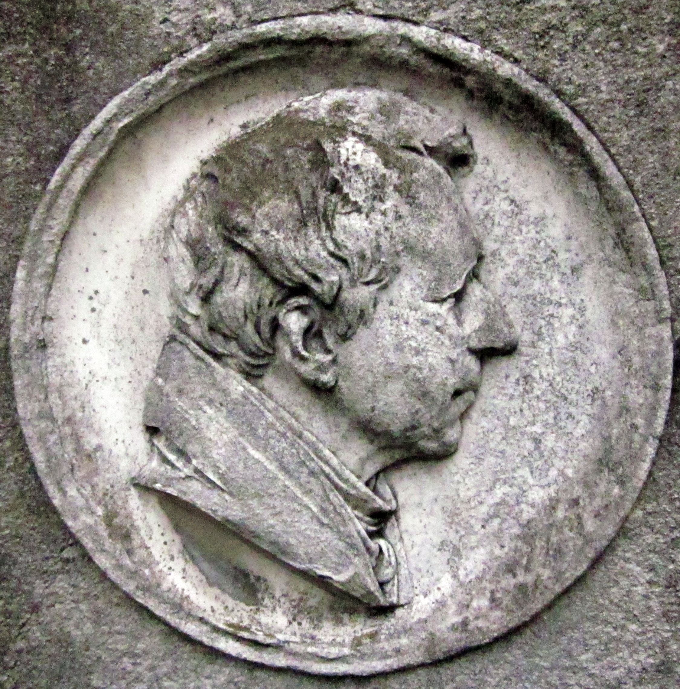 Portrait relief of the theologian and historian August Neander (1789-1850) on his gravestone on the Cemetery I of the Jerusalem and New Church congregation at Zossener Straße in Berlin-Kreuzberg. Grave of Honor of the State of Berlin.